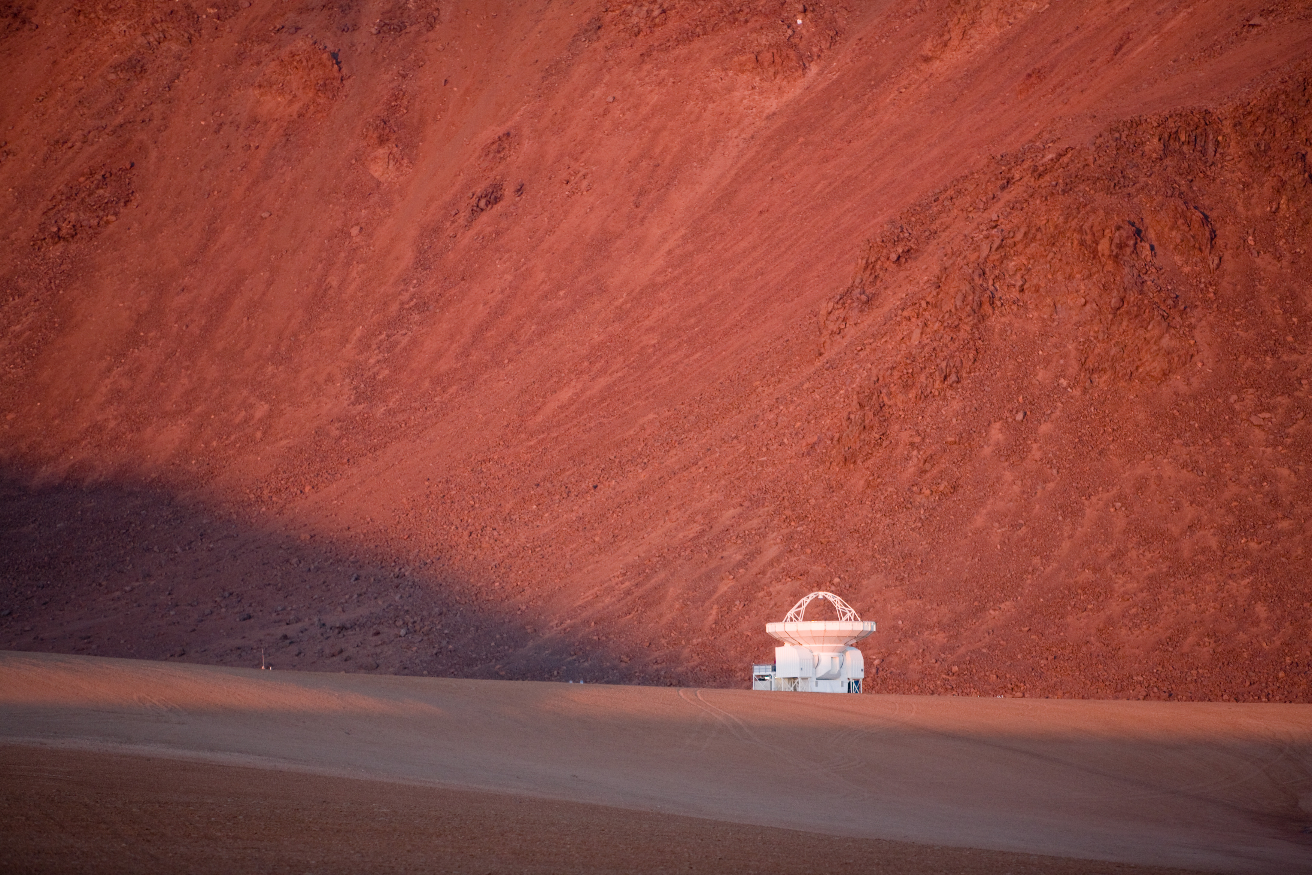 While ALMA is currently under construction, astronomers are already doing millimetre and submillimetre astronomy at Chajnantor, with the Atacama Pathfinder Experiment (APEX). This is a new-technology 12-m telescope, based on an ALMA prototype antenna, and operating at the ALMA site. It has modified optics and an improved antenna surface accuracy, and is designed to take advantage of the excellent sky transparency working with wavelengths in the 0.2 to 1.4 mm range.